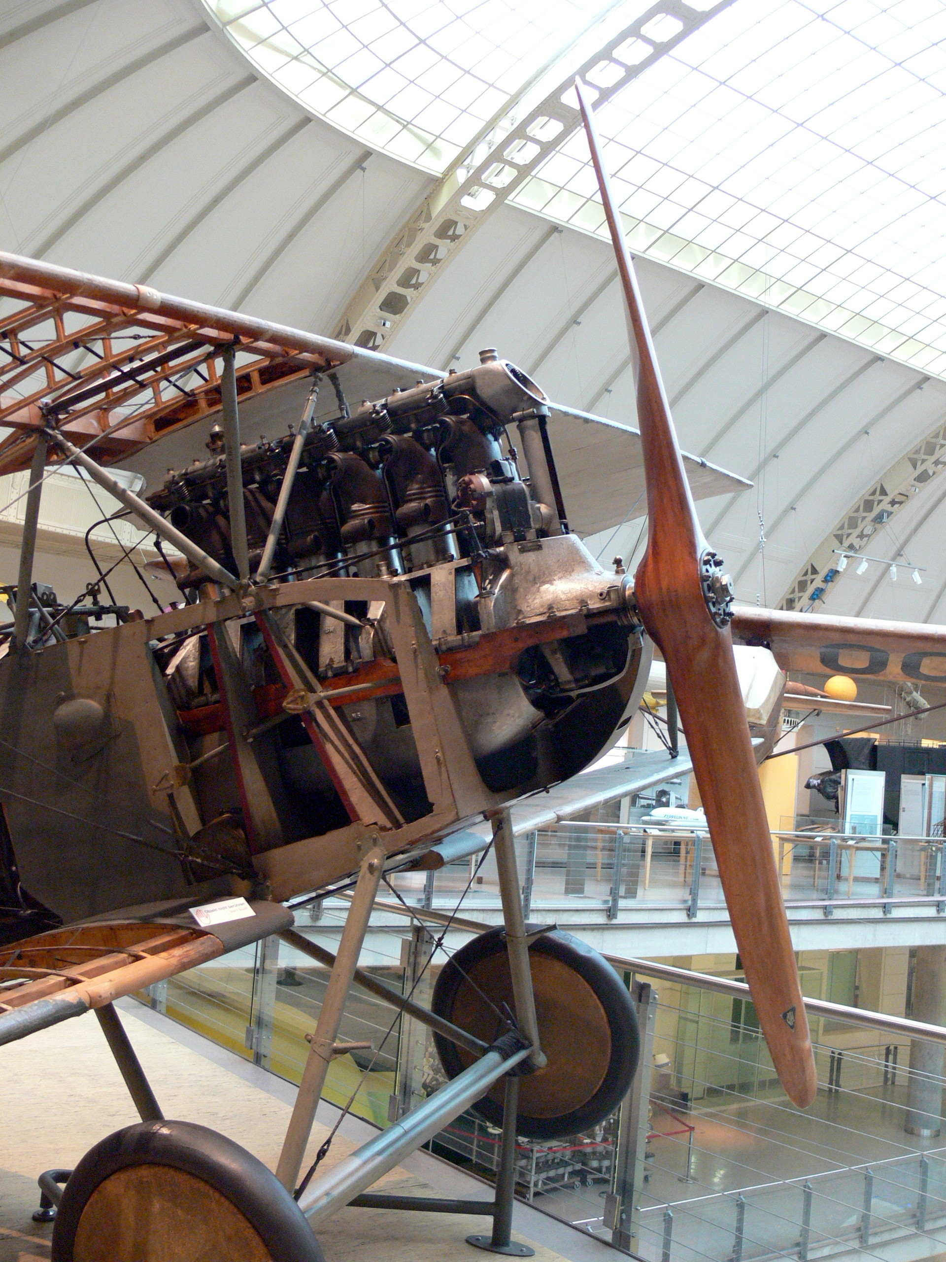 Technical Museum Vienna. Aviatik D 1, fighter air craft of the Austro-Hungarian empire, designed by Julius von Berg in 1916. Propulsion by 1 x 147 kW ( 200 PS ) Austro Daimler